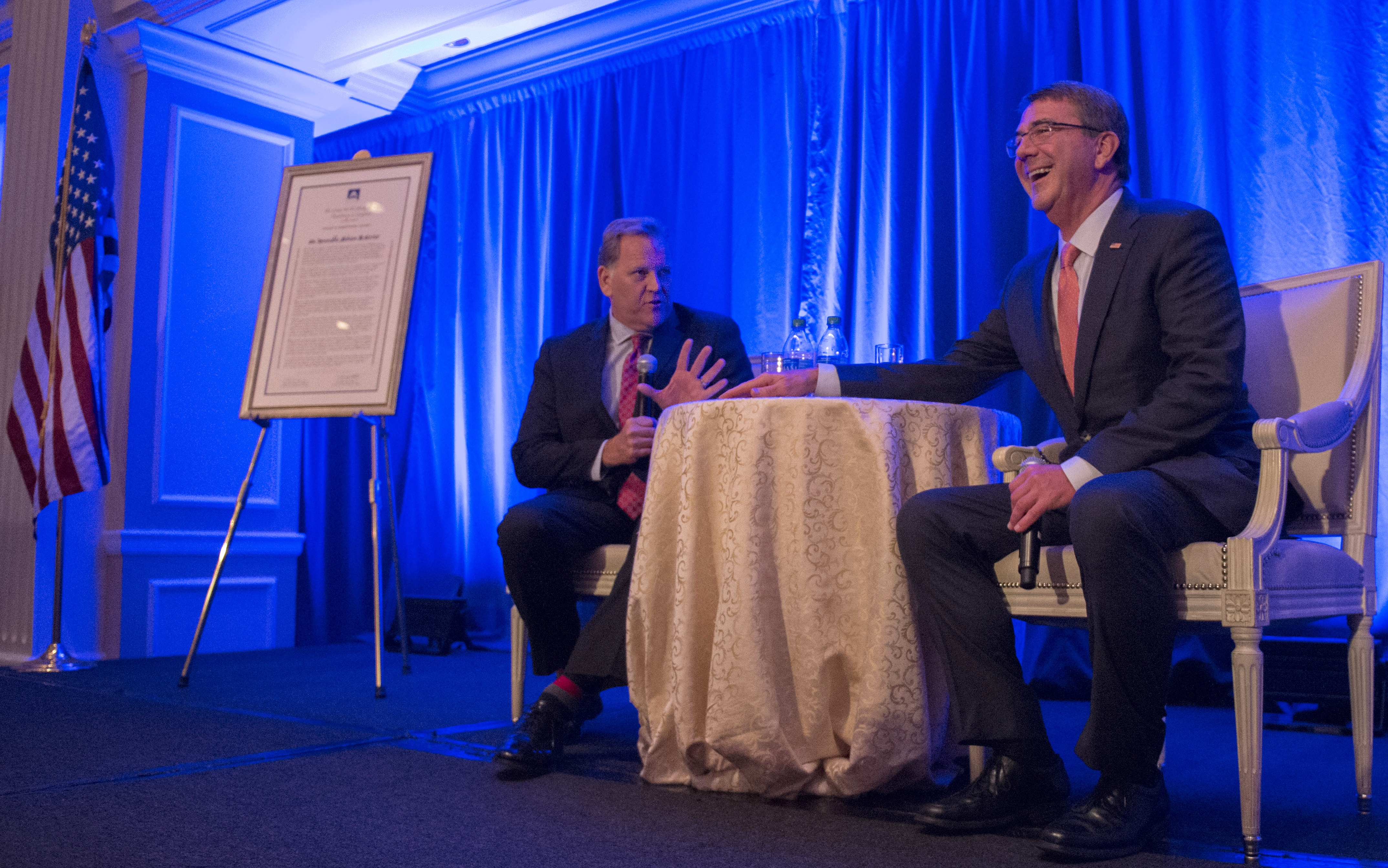 Secretary of Defense Ash Carter was awarded the Eisenhower Award for leadership in national security affairs